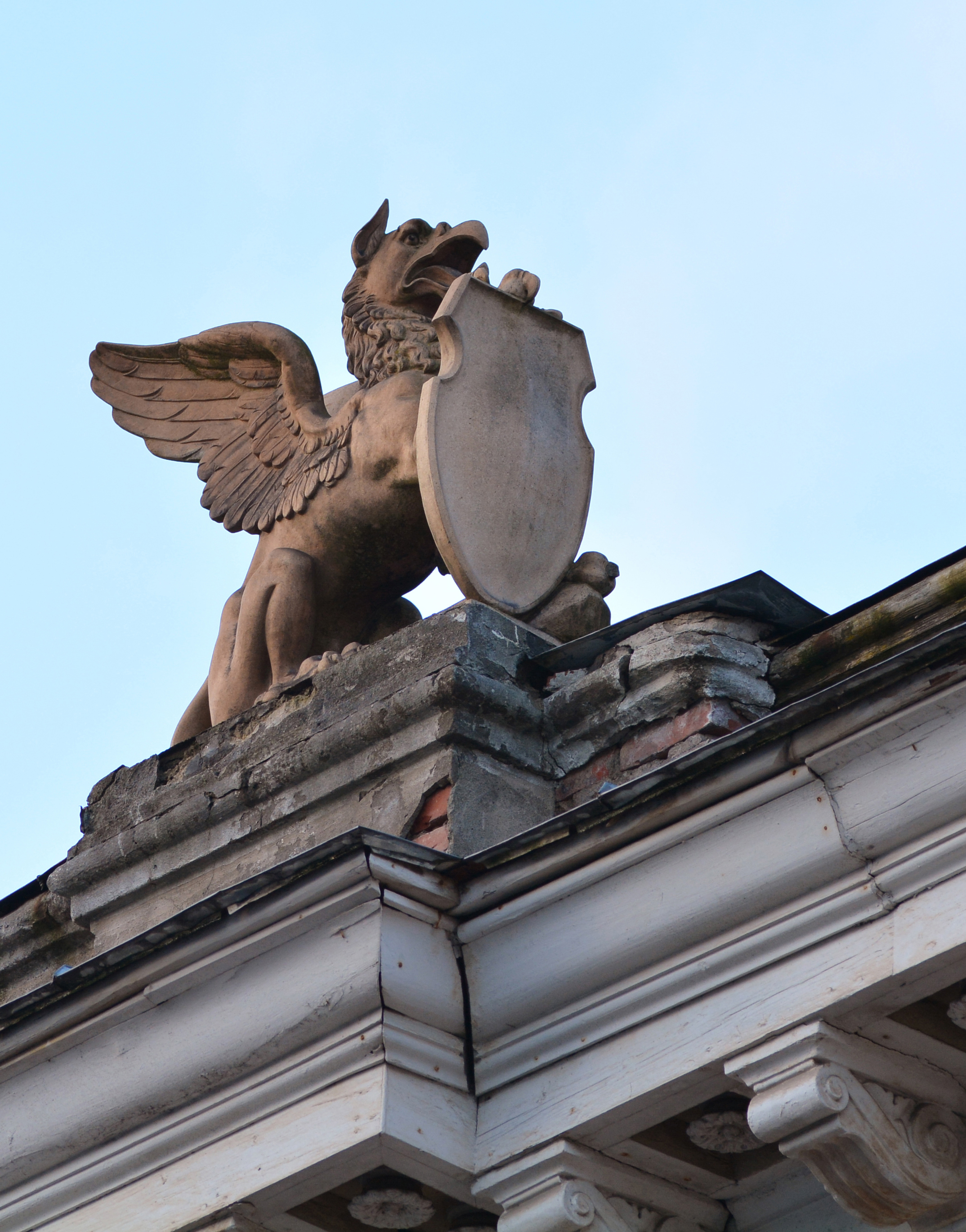 Roof sculpture of Engelhardt house (Lai 9) in Tallinn Old Town.